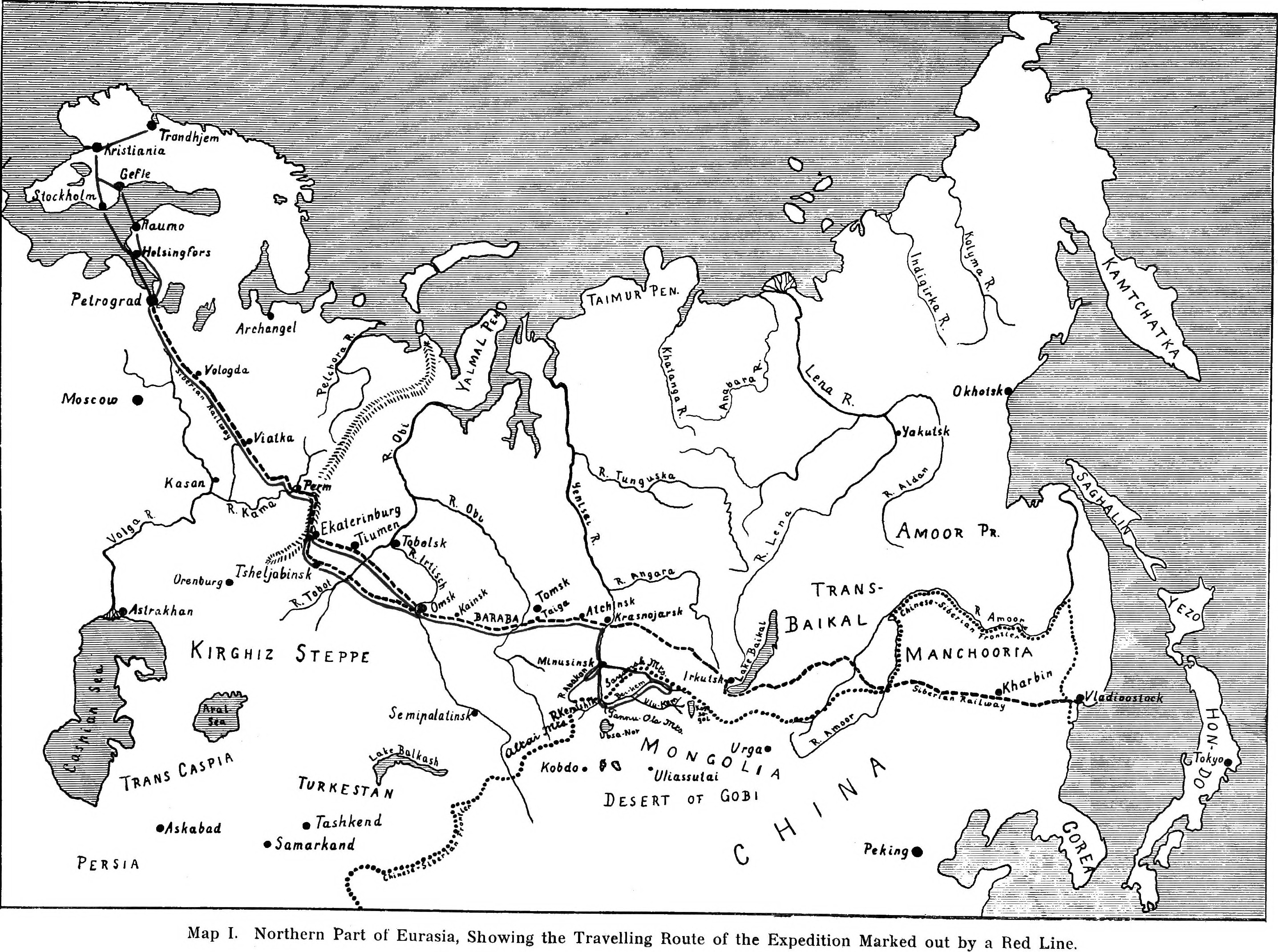 Title: The vegetation of the Siberian-Mongolian frontiers (the Sayansk region) Year: 1921 (1920s) Authors: Printz, Henrik, 1888- Subjects: Botany; Botany Publisher: (Trondhjem) K. Norske Videnskabers Selskab Text Appearing Before Image: ' Text Appearing After Image: '